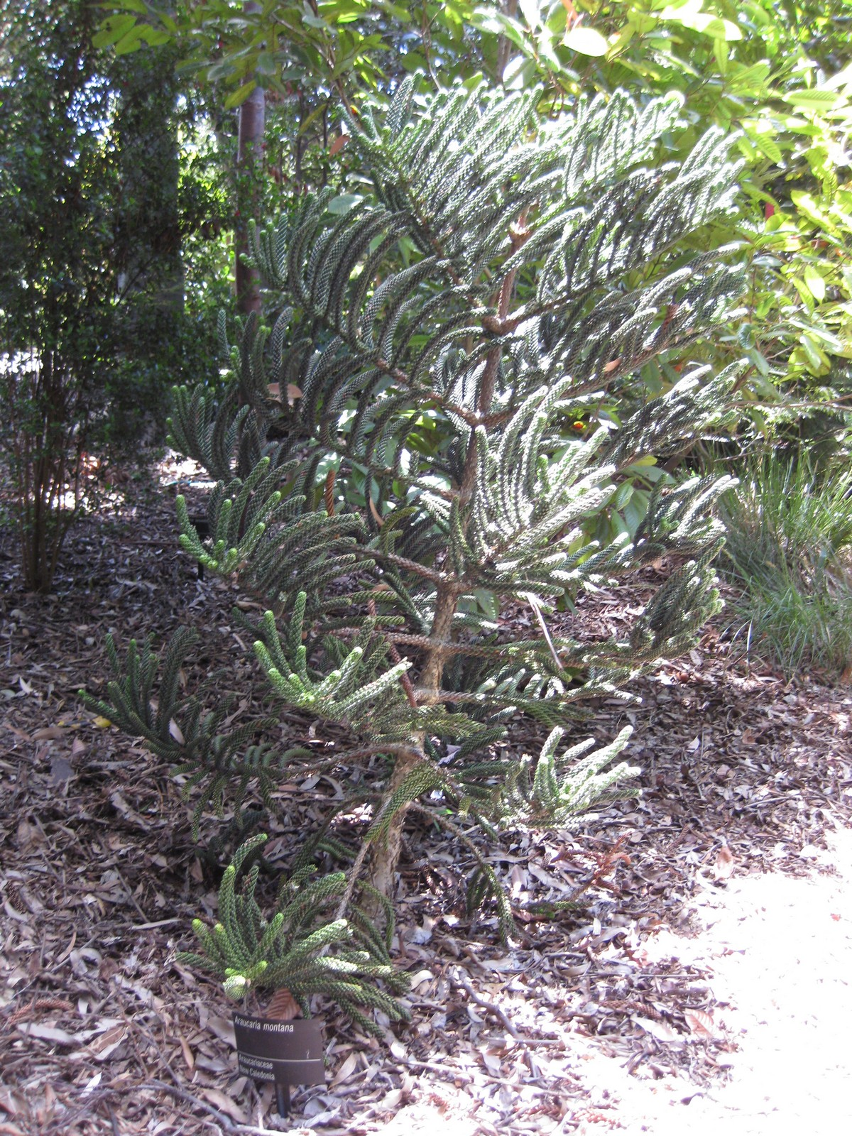 Araucaria montana photographed at the Royal Botanic Gardens Melbourne (Australia) in December